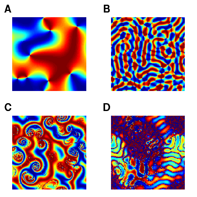 Shows four distinct synchronization patterns in a 128x128 array of Kuramoto-like oscillators with differing phase interaction functions and spatial coupling topologies. (A) Pinwheels arise from sinuoidal phase interactions combined with Gaussian spatial coupling. (B) Waves arise from sinusoidal phase interactions combined with Mexican-Hat spatial coupling. (C) Chimeras arise with the introduction of second Fourier component in the phase interaction, in this case combined with Gaussian spatial coupling. (D) Chimeras and waves arise from a second-order phase interaction combined with Mexican-Hat spatial coupling. See Kuramoto Model.